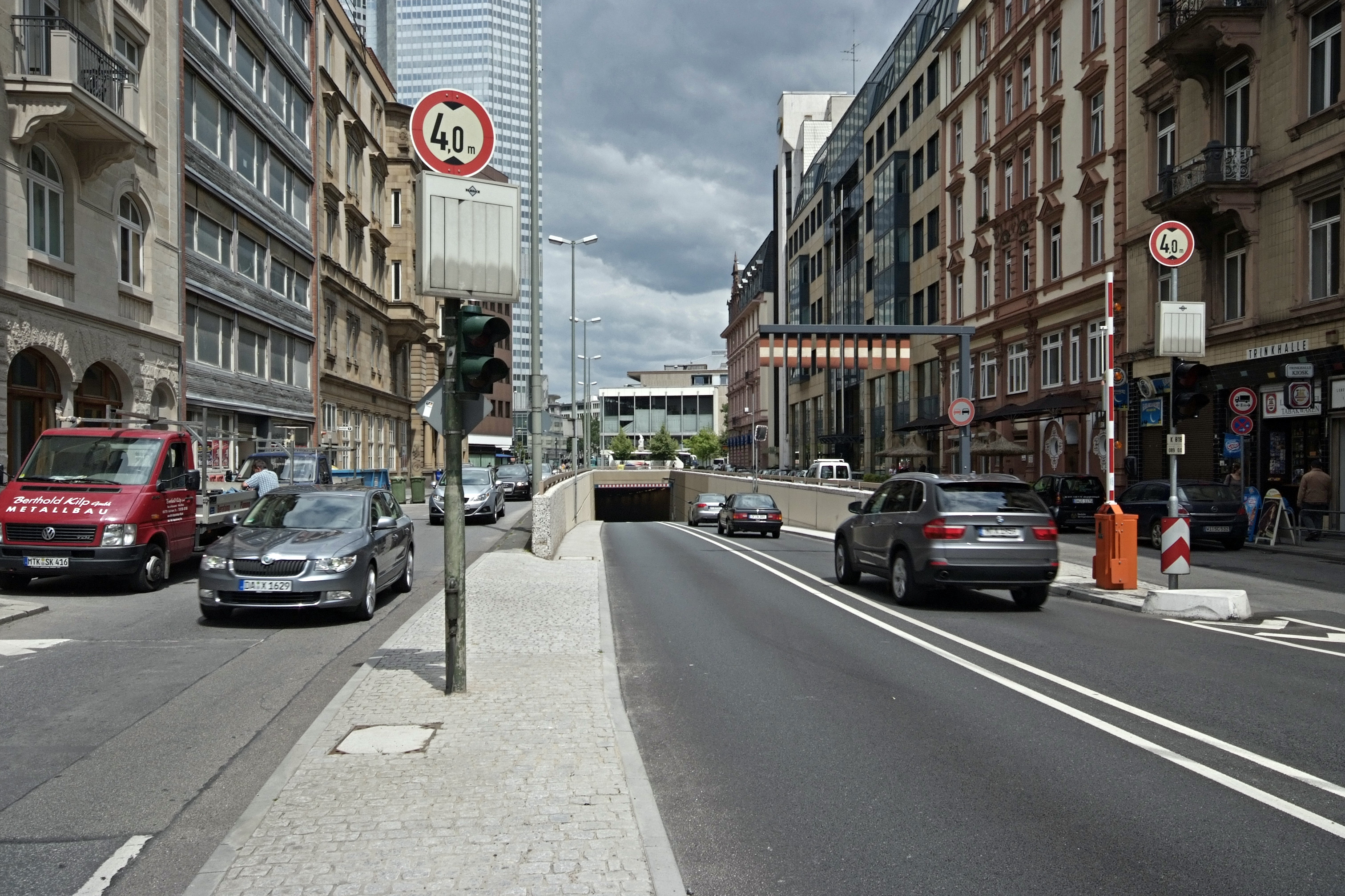 Theater-Tunnel Frankfurt am Main, Westportal